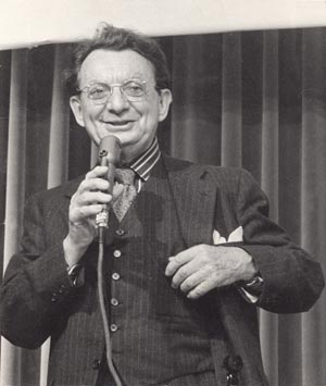 I.F. Stone in action, age 64.